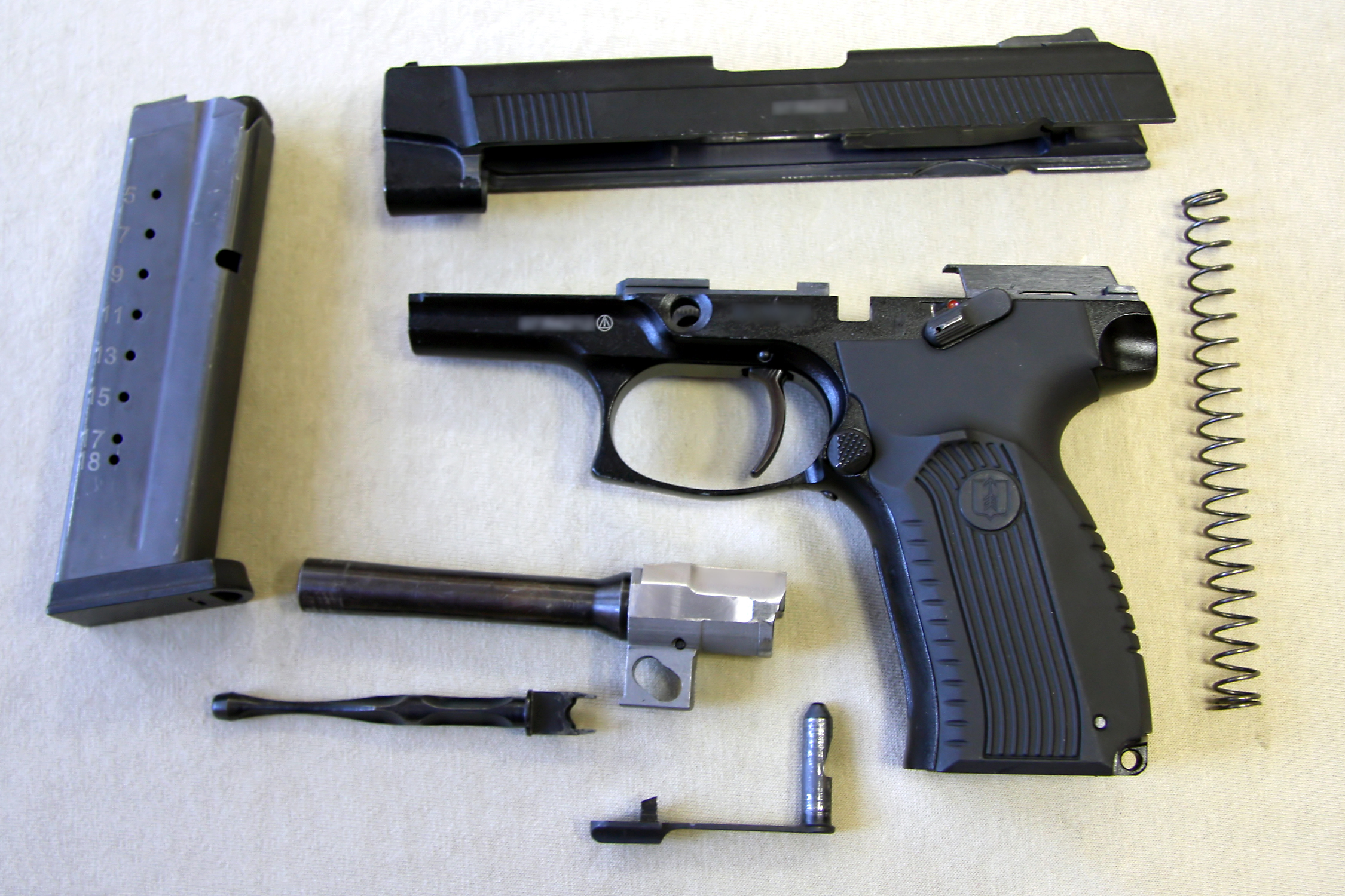 9mm PYa 6P35 Yarygin pistol, also know as MP-443 Grach